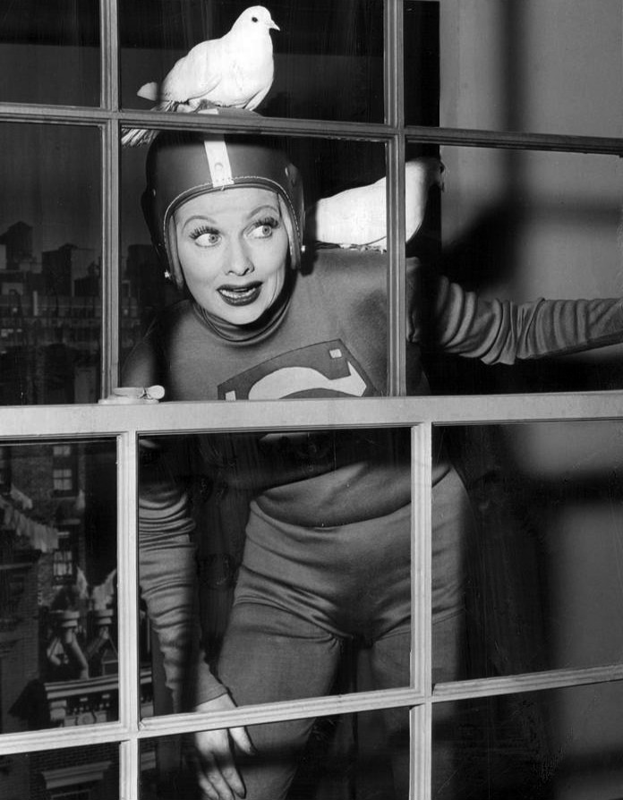 Publicity photo of Lucille Ball from I Love Lucy. In this episode, Lucy promises to get Superman to appear at little Ricky's fifth birthday party. When she doesn't, she decides to dress as the superhero, using a football helmet to hide her red hair, so the kids won't realize it's her. She planned to make her "entrance" to the Ricardo's apartment by using the ledge and walking on it from the vacant apartment next door. Her plans change when Ricky is able to get the real Superman to come to the party. Lucy quietly intends to go back through the vacant apartment, but when she gets to the window, she finds that it's closed and locked, so she is stuck on the ledge.